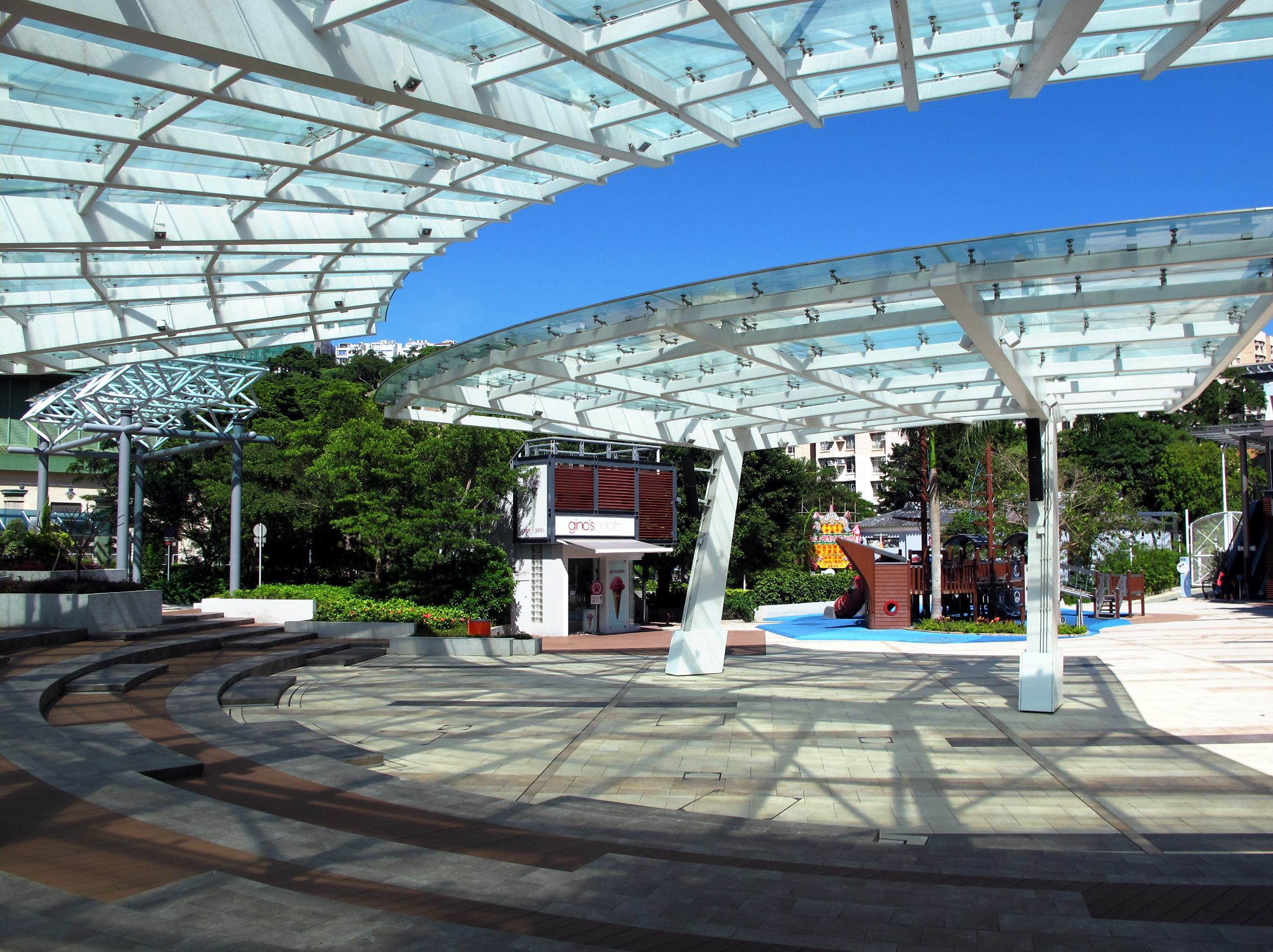 Stanley Plaza Amphitheatre Playground_